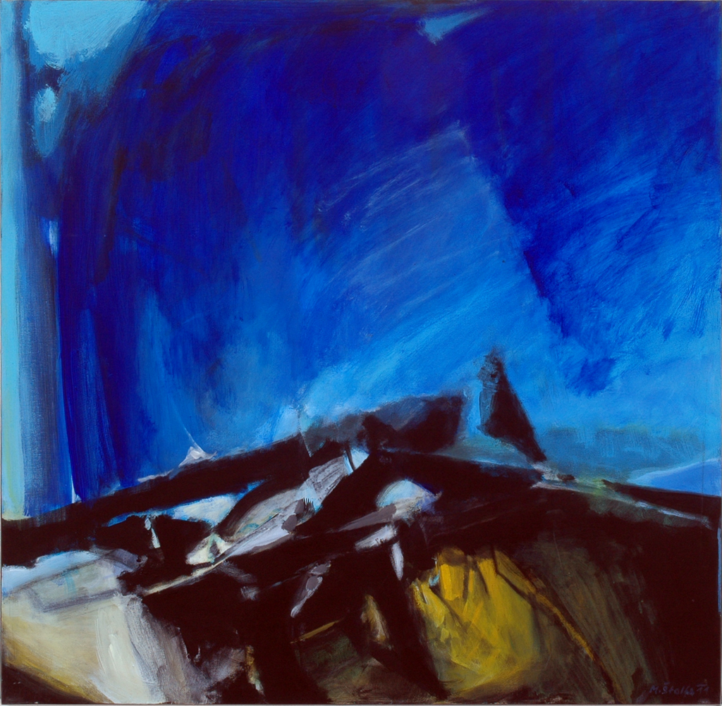 Miroslav-Štolfa,--Above-horizon,-2011,-acryl,-canvas,-100x100-cm